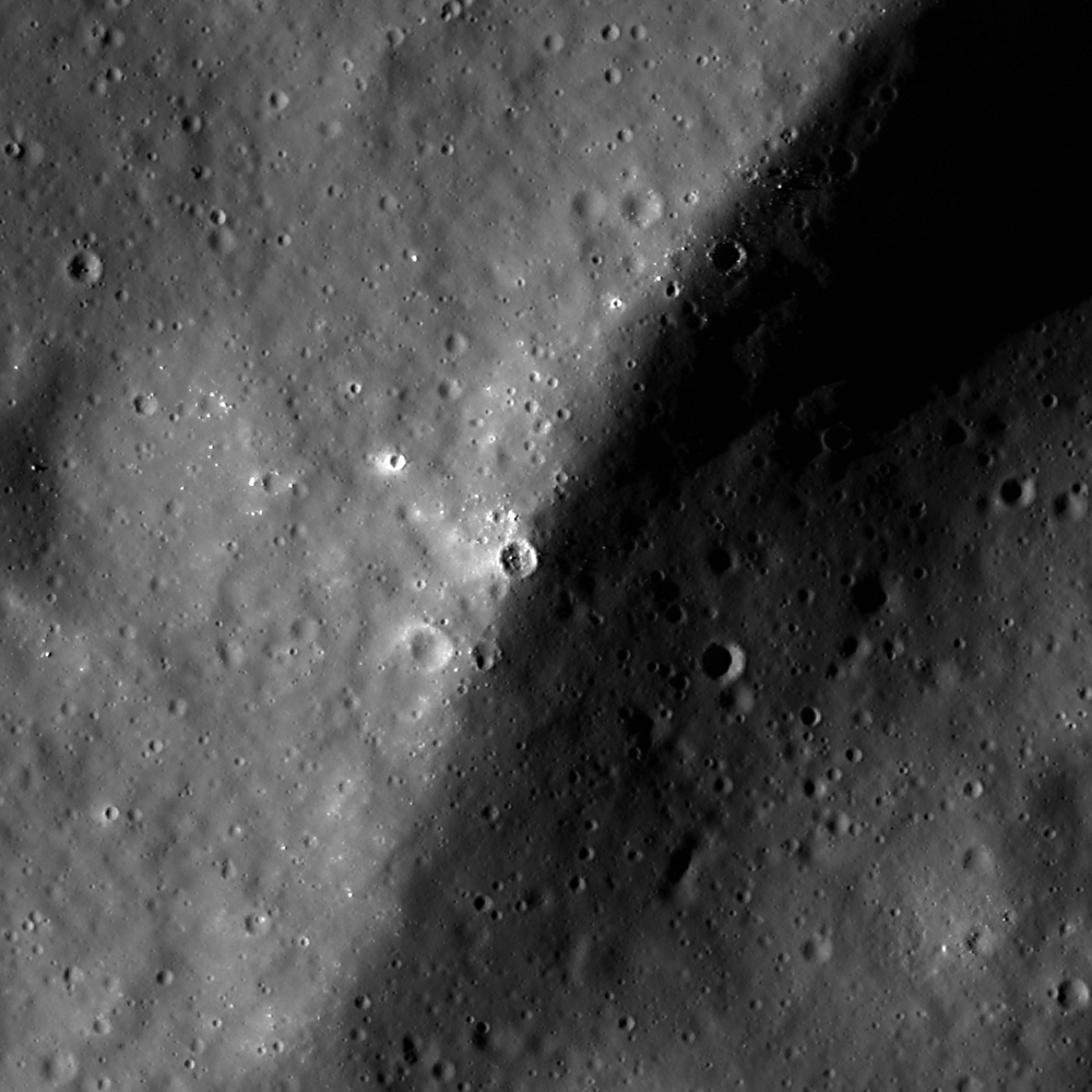 A terrace in Maunder crater is slowly engulfed in shadow as the Sun sets on the Moon. LROC NAC M133445371RE, image width is 800 m [NASA/GSFC/Arizona State University].